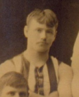 Photograph of George Calleson in 1896.